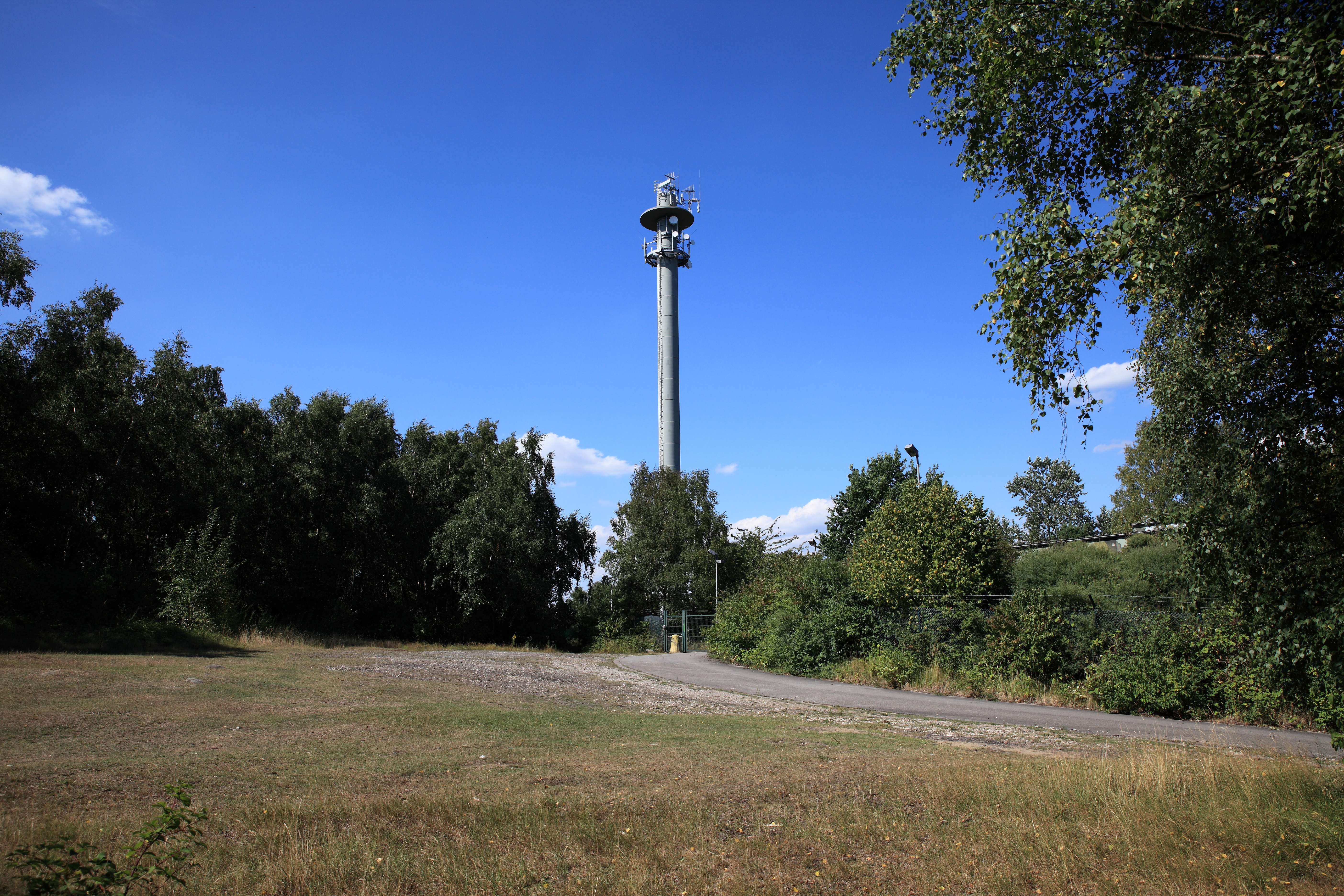 Stimberg - Radarstation